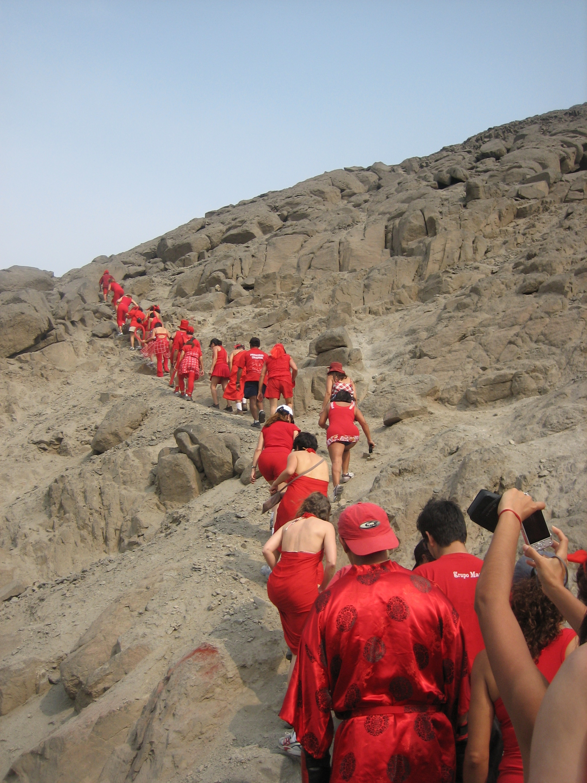 A picture of the first Red Dress Hash in South America, held in Chaclacayo, a neighbourhood 25km away from Lima. January 10th, 2009